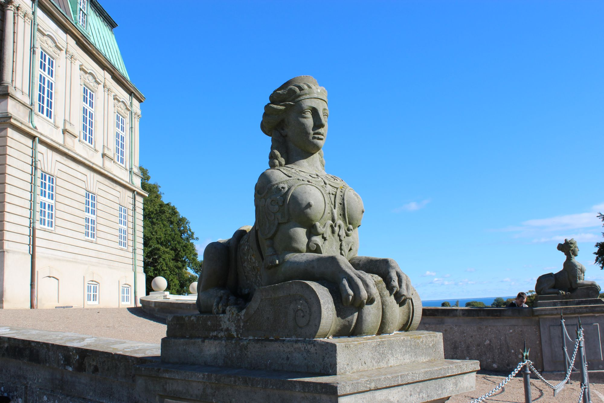 Griffen outside the castle